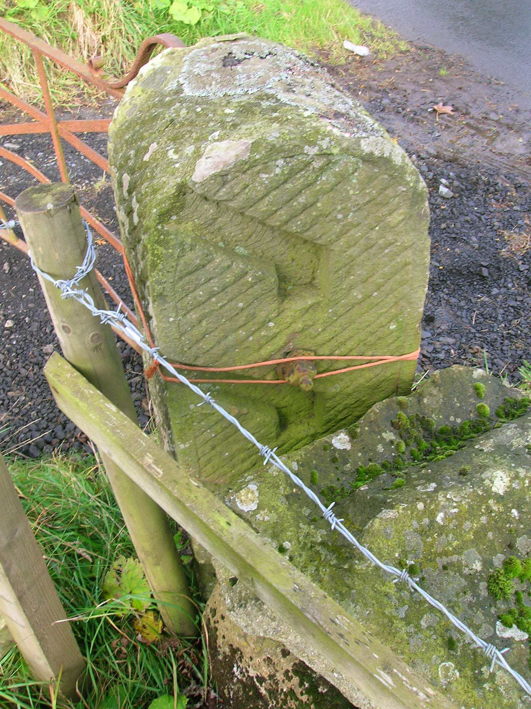 Flashwood Farm gate stile with slots, Dalry, North Ayrshire, Scotland